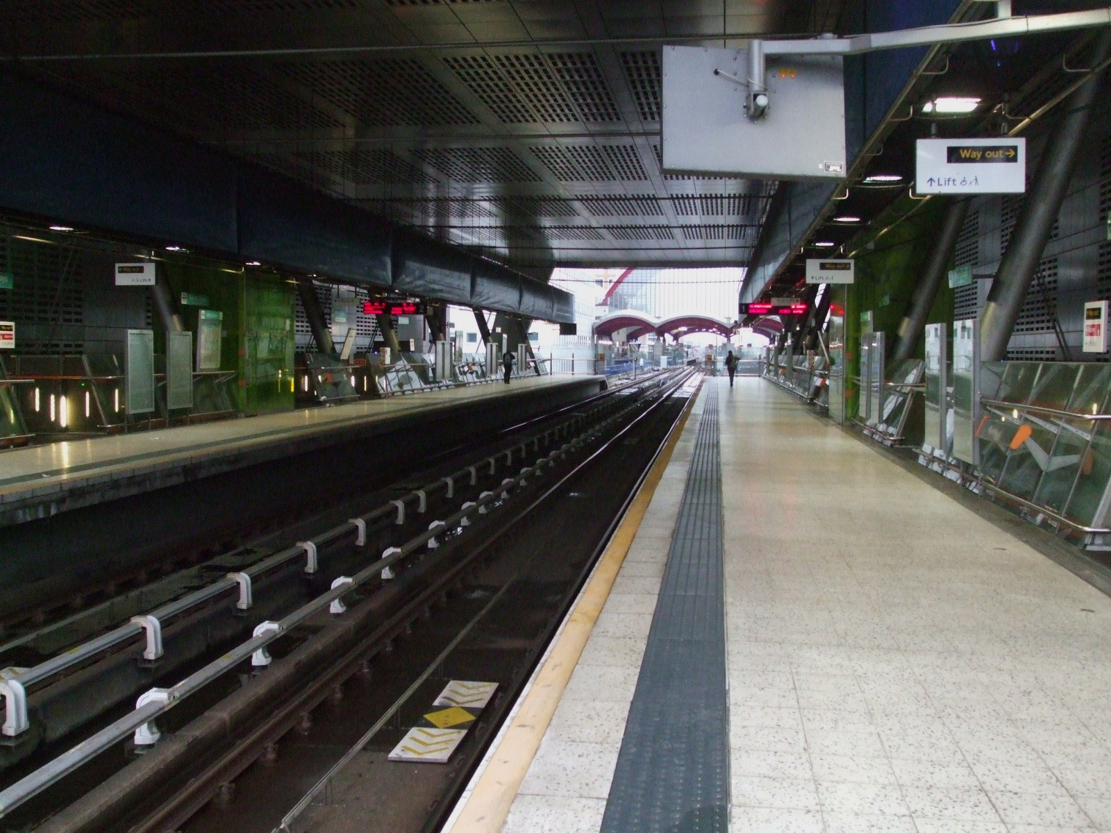 Heron Quays DLR station looking north, with Canary Wharf station trainshed visible in the distance. Canary Wharf station is some distance from its namesake station on the Jubilee line, and Heron Quays is "officially" closer.